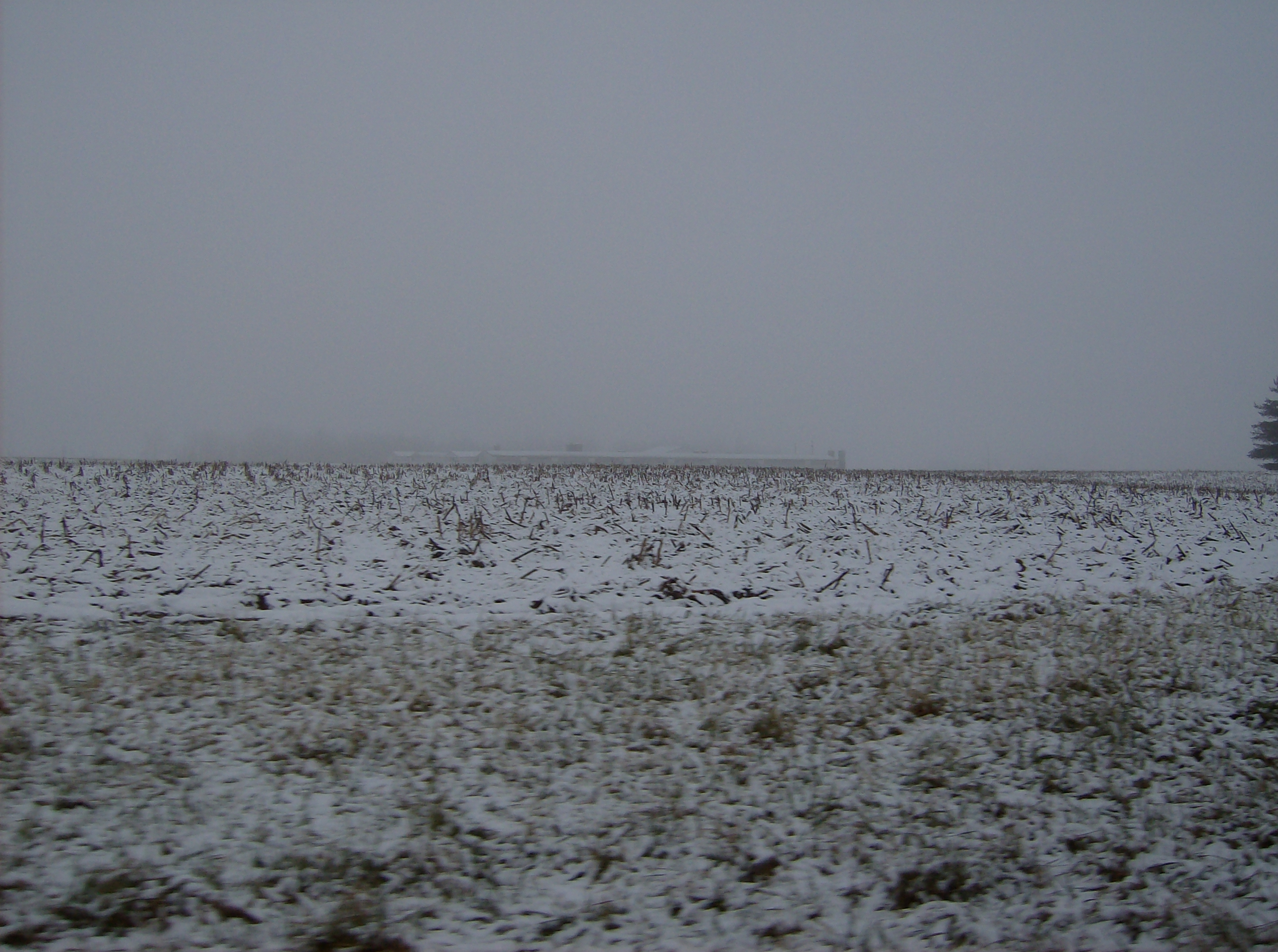 Corn fields in northern Forest Township, Clinton County, Indiana, United States. Picture taken northward from State Road 26.